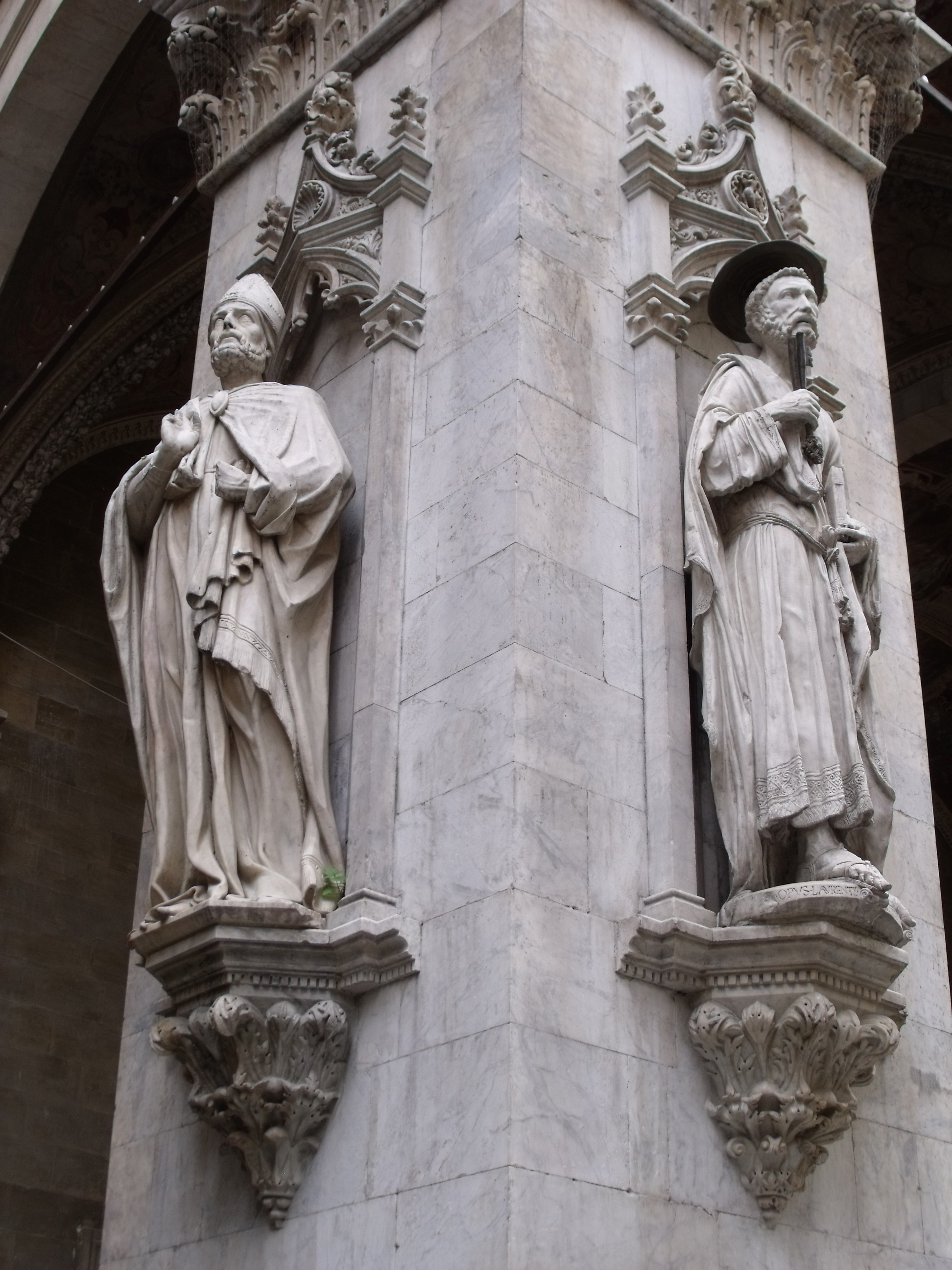 Siena, Loggia della Mercanzia, Statues of San Savino (Work of Federighi) and San Pietro (Il Vecchietta)